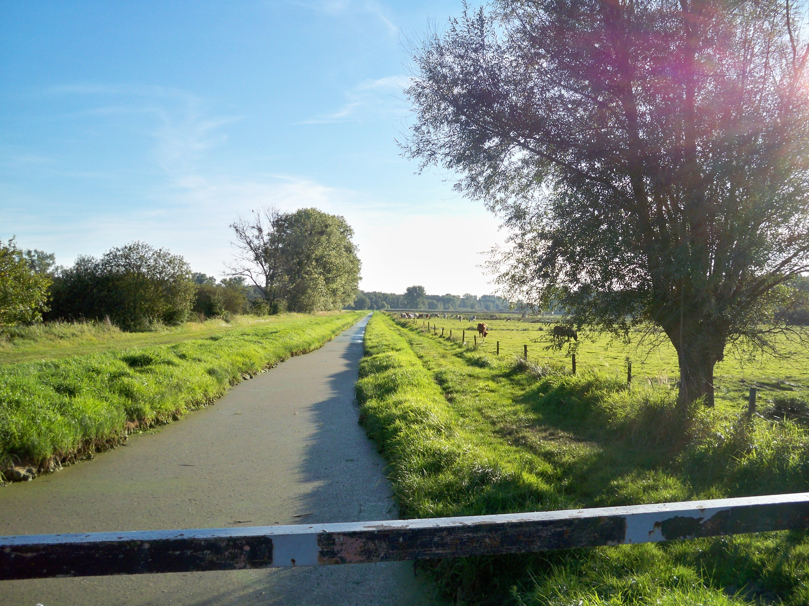 Wolfsburg-Wendschott, Lower Saxony, bridge across Vorderer Drömlingsgraben in nature reserve